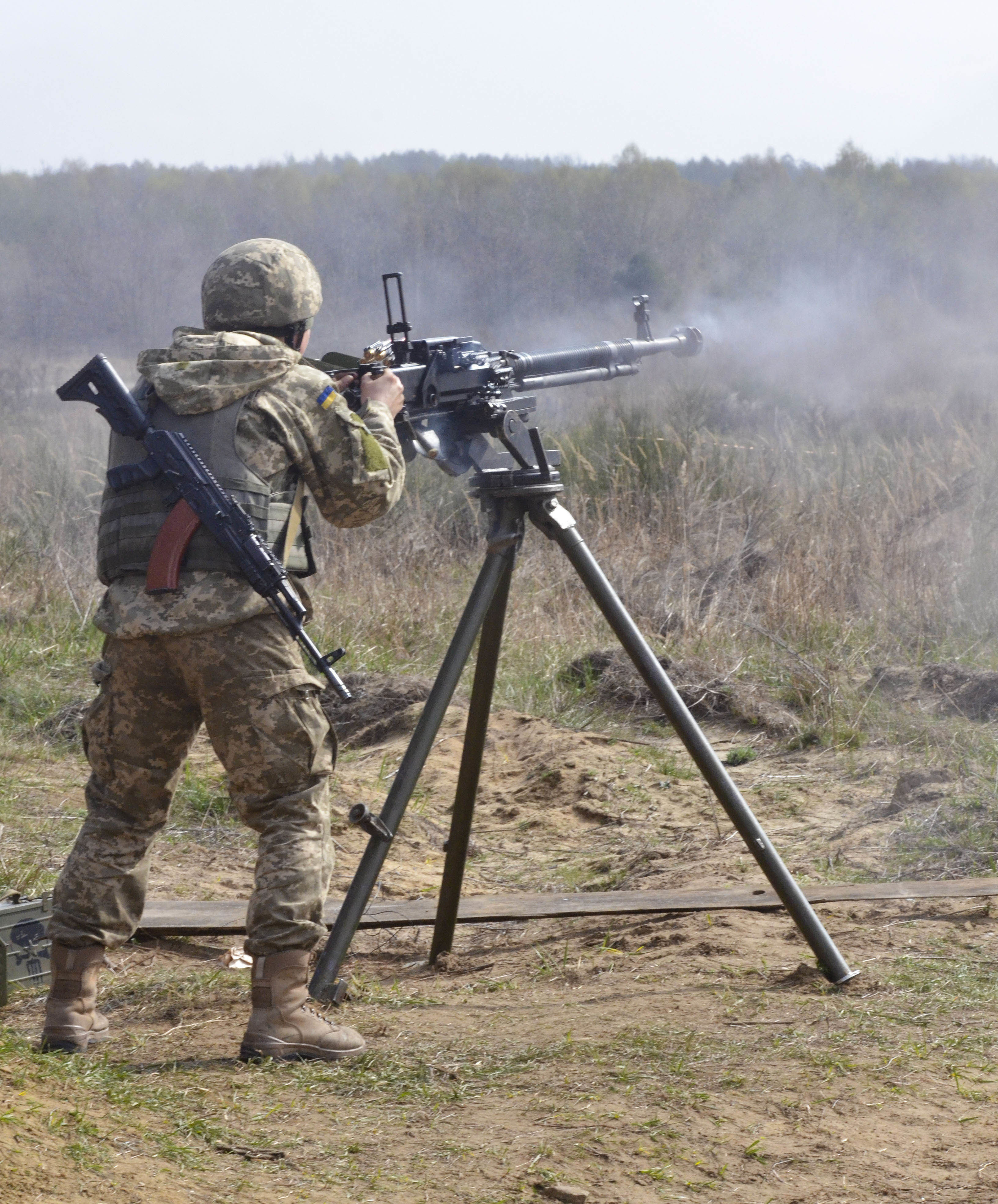 A soldier with the Ukrainian Land Forces fires a Degtyaryov-Shpagin Large-Caliber Modernized (1946 pattern) heavy machine gun Apr. 7, 2016, at the International Peacekeeping and Security Center near Yavoriv, Ukraine during a live-fire exercise lead by soldiers with the Lithuanian Land Forces as part as Joint Multinational Training Group-Ukraine. Each JMTG-U rotation will consist of nine weeks of training where Ukrainian soldiers will learn defensive combat skills needed to increase Ukraine's capacity for self-defense. (U.S. Army photo by Staff Sgt. Adriana M. Diaz-Brown, 10th Press Camp Headquarters)